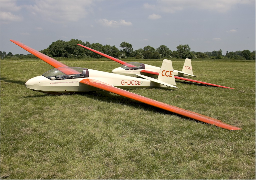 Oxford Gliding Clubs K13s